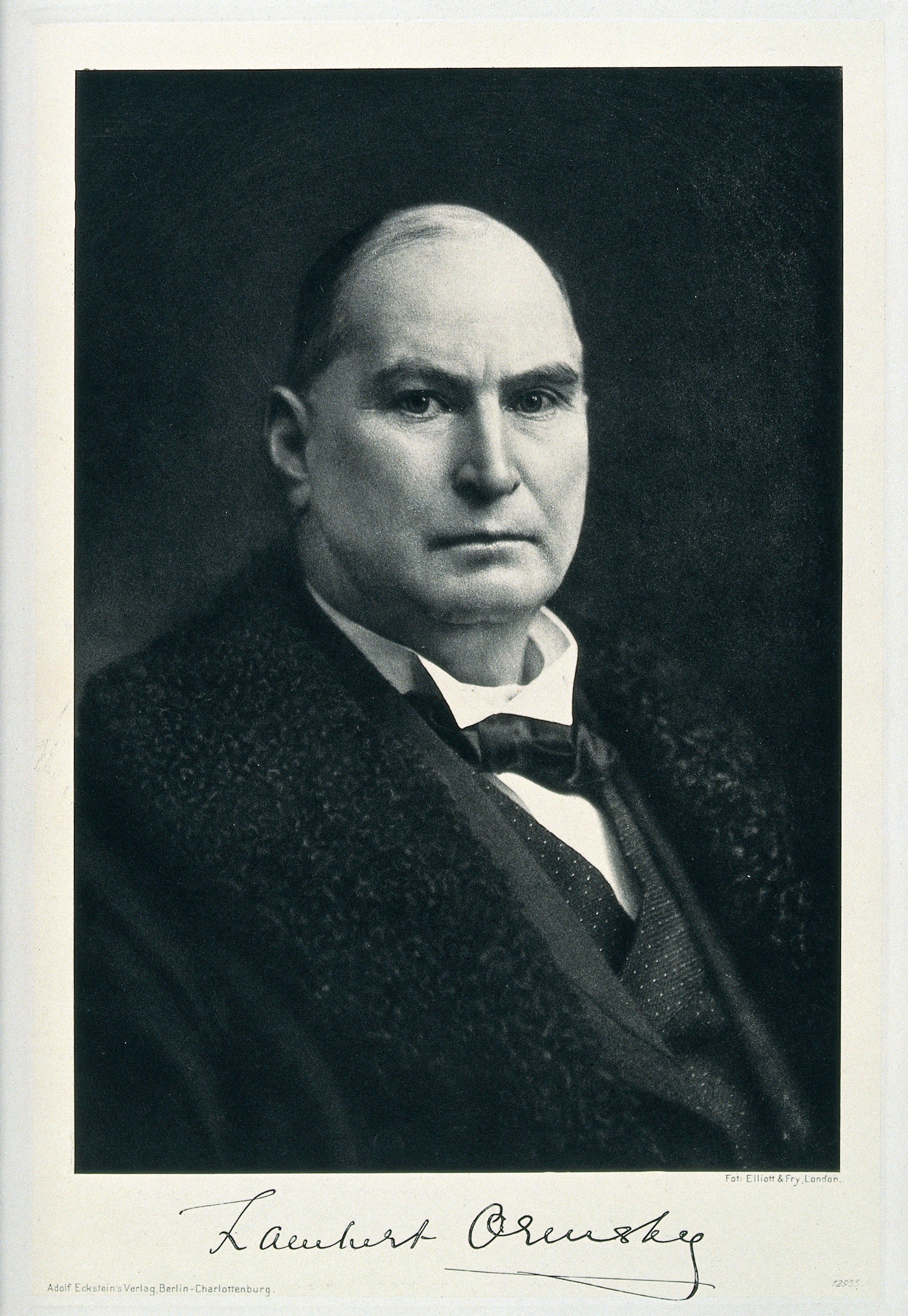 Image is pre-1910; sitter died 1923; credit Wellcome Collection